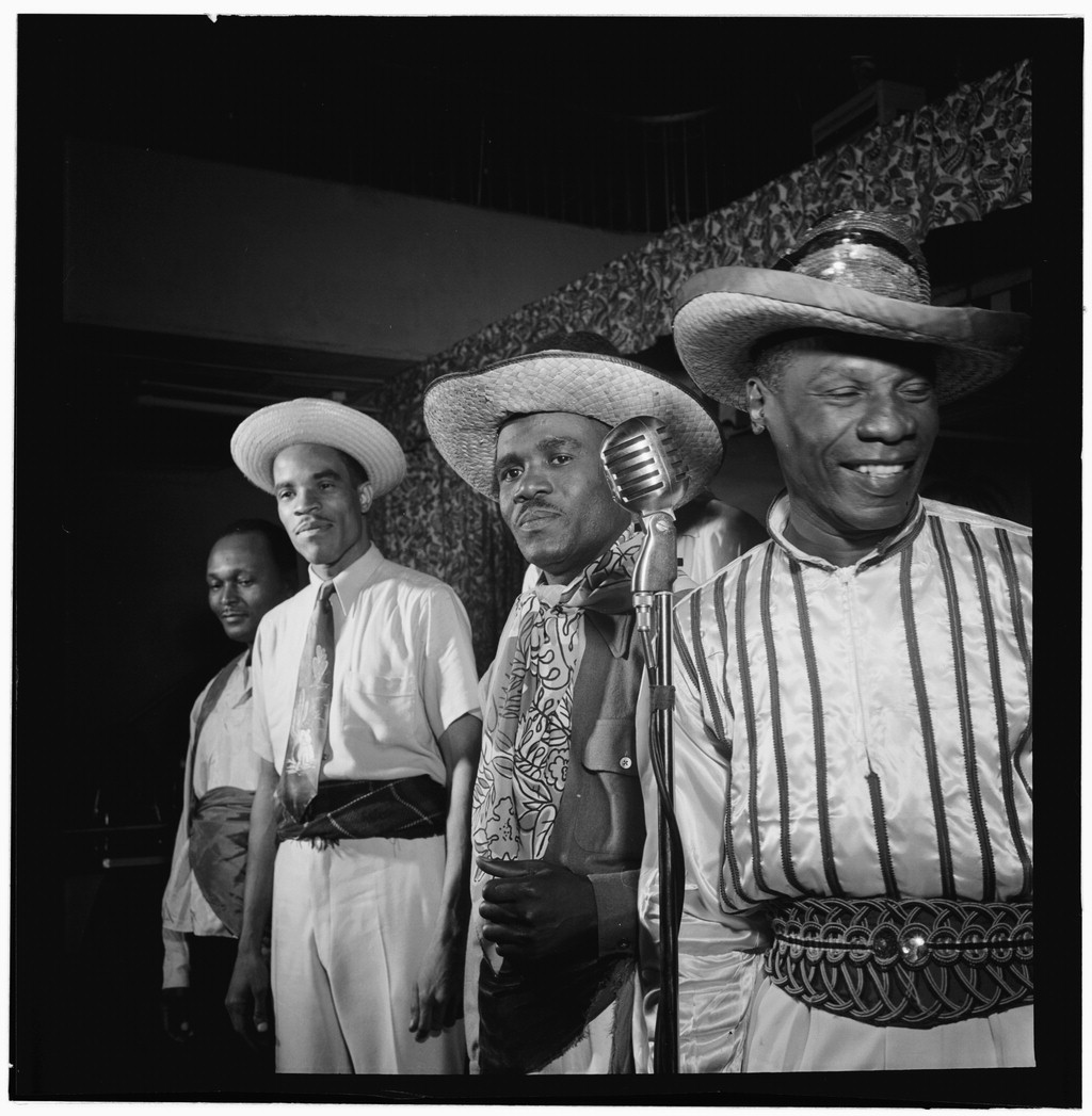 L-R: Patrick MacDonald aka "MacBeth the Great", ?, Lord Invader, Wilmoth Houdini [Portrait of Calypso, between 1938 and 1948] 1 negative : b&w ; 2 1/4 x 2 1/4 in. Notes: Gottlieb Collection Assignment No. 355 Purchase William P. Gottlieb Forms part of: William P. Gottlieb Collection (Library of Congress). Subjects: Calypso musicians Calypso musicians--1930-1950. Format: Portrait photographs--1930-1950. Group portraits--1930-1950. Film negatives--1930-1950. Rights Info: Mr. Gottlieb has dedicated these works to the public domain, but rights of privacy and publicity may apply. Repository: (negative) Library of Congress, Prints & Photographs Division, Washington D.C. 20540 USA, Part Of: William P. Gottlieb Collection (DLC) 99-401005 General information about the Gottlieb Collection is available at Persistent URL: Call Number: LC-GLB23- 1020